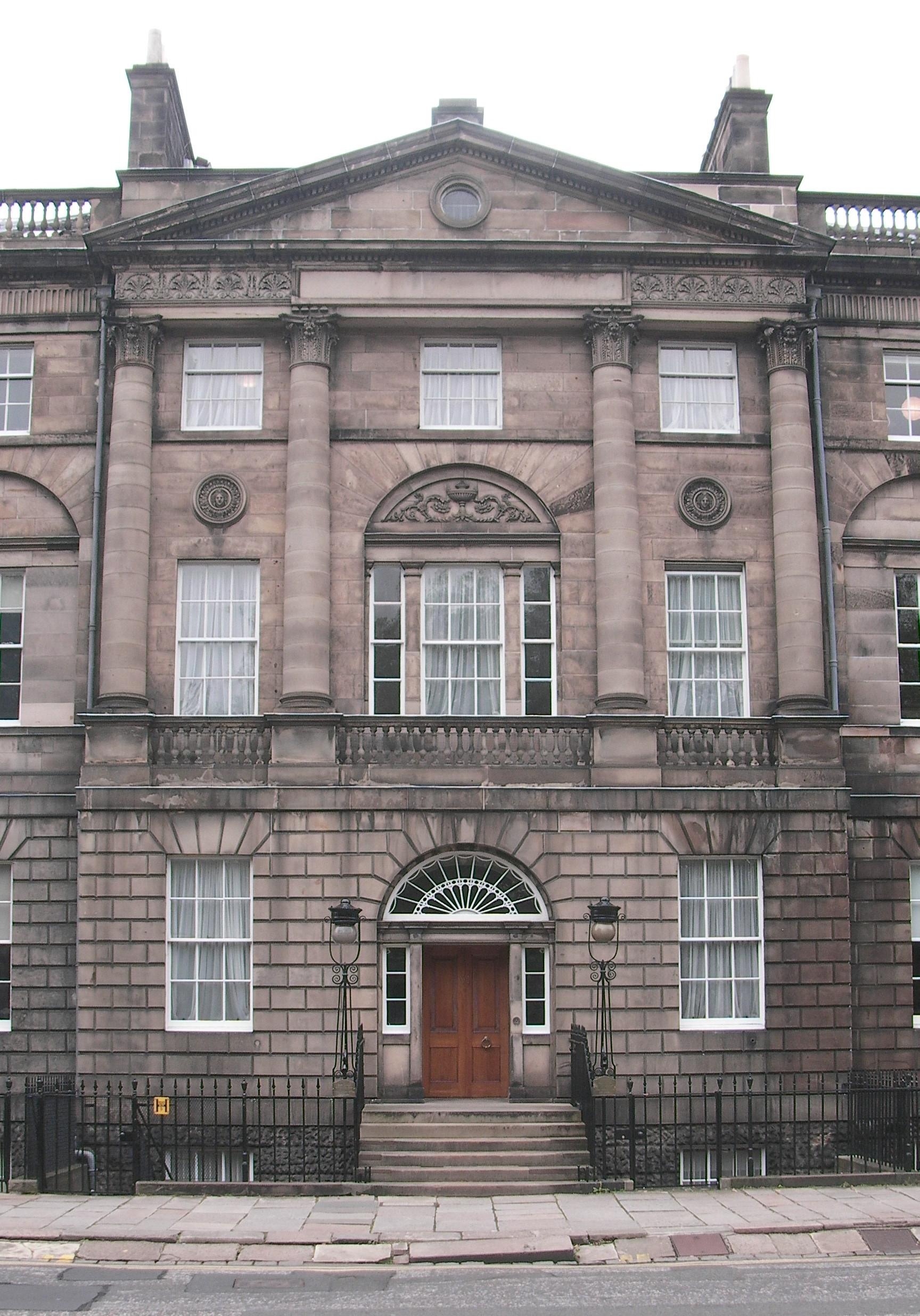 Bute House at Charlotte Square, Edinburgh, Scotland. Bute House is the official residence of the First Minister of Scotland.